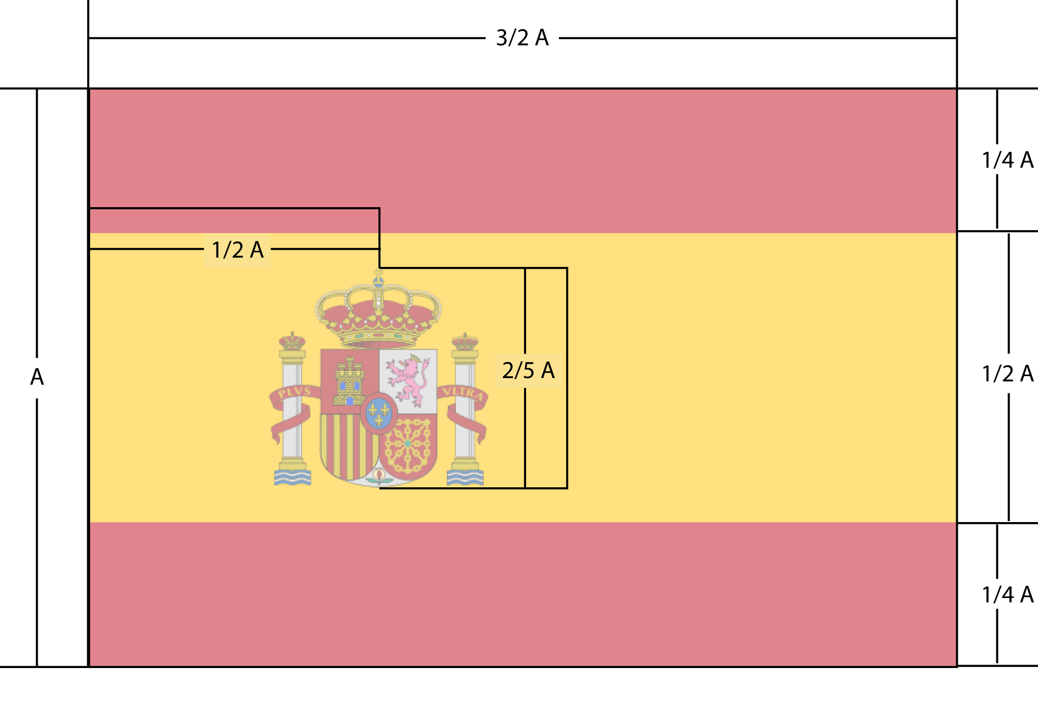 Specifications of the Spanish flag